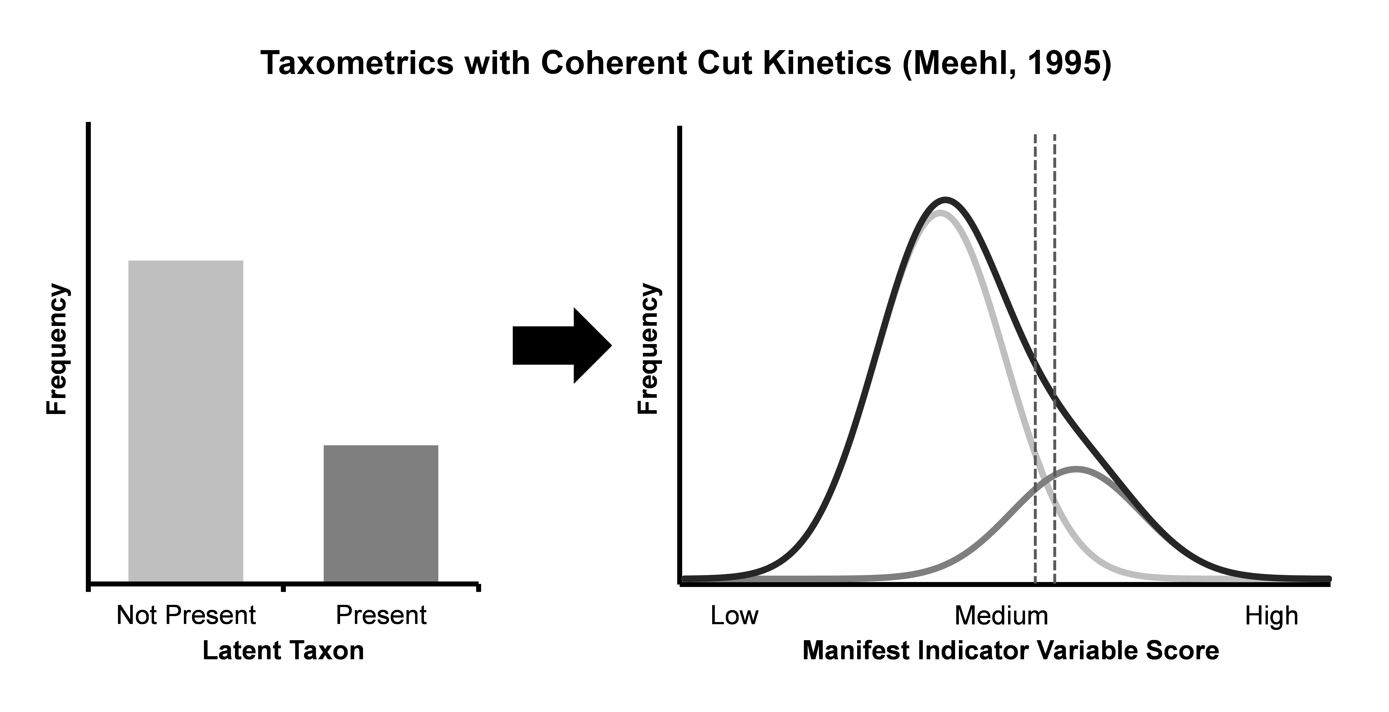 Visual depiction of the taxometric procedure of Coherent Cut Kinetics as applied to a latent taxon with a population base rate of 30%. The "hitmax" interval is depicted with vertical dotted lines. Paul Meehl assisted with developing this technique (Meehl PE, 1995)